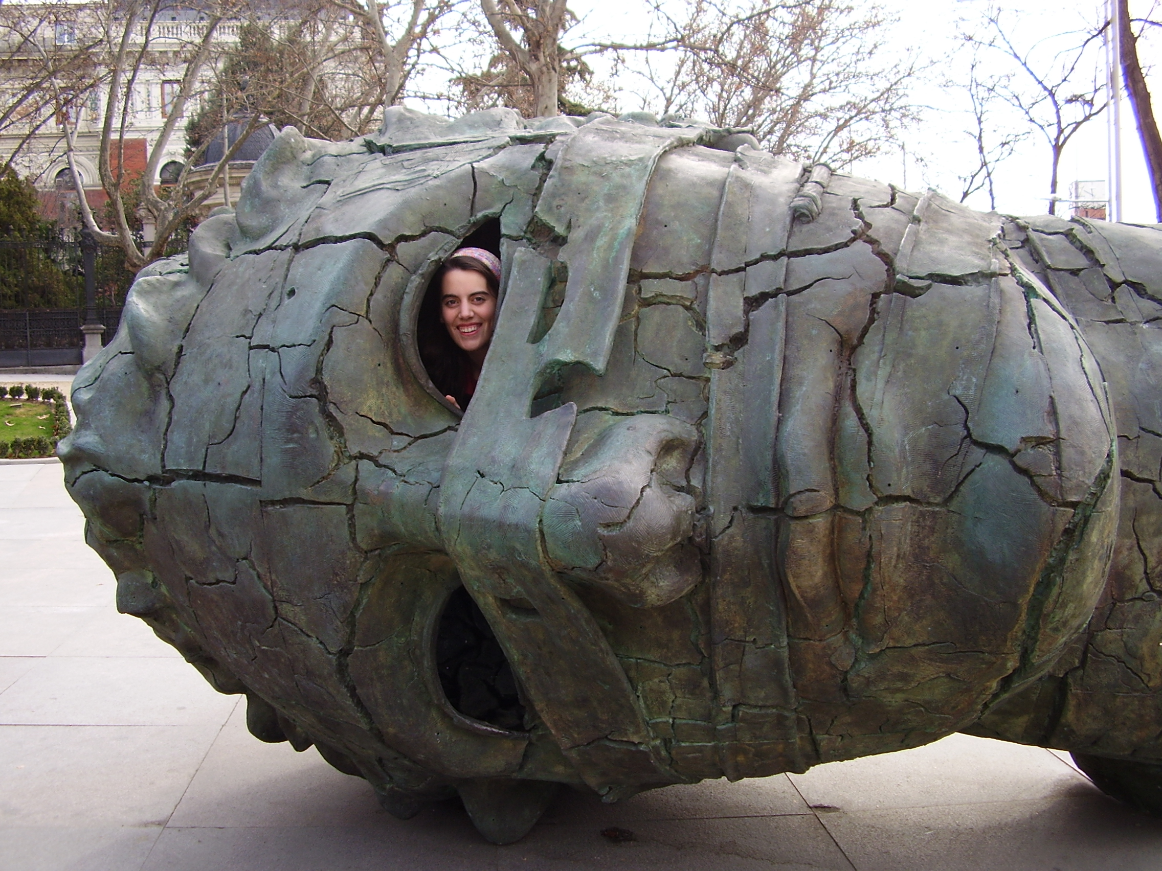 Igor Mitoraj's Eros Bendato closeup with woman fitting inside for proportion.